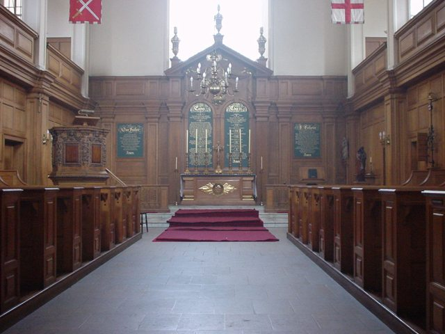 photo by lonpicman